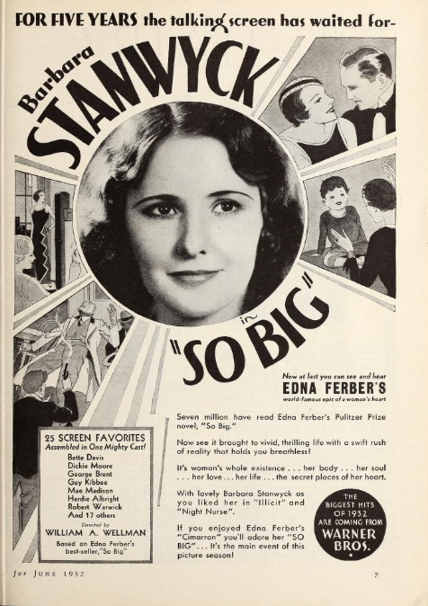 An advertisement published by Screenland Magazine, Inc. to promote Warner Bros.' remake of So Big